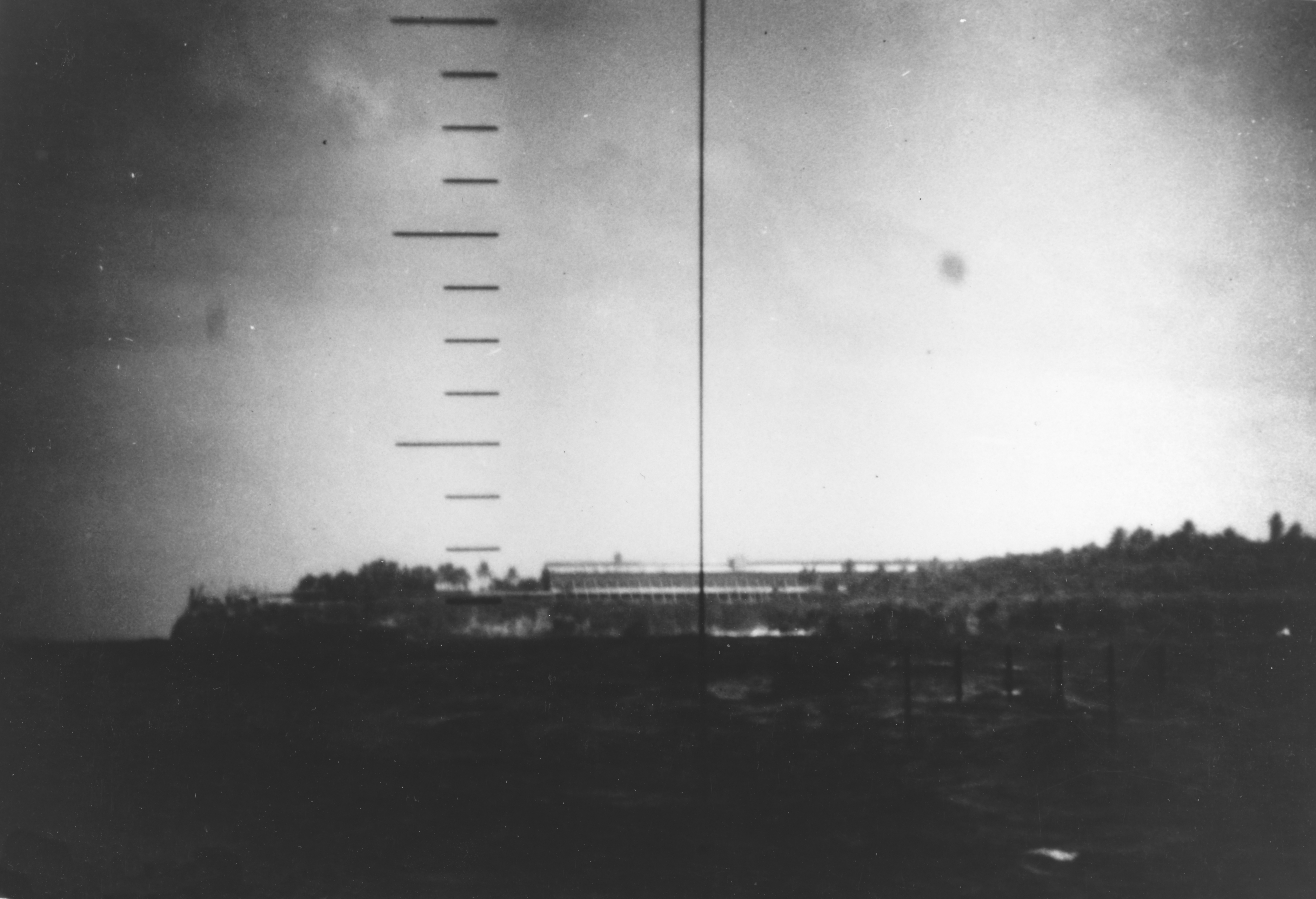 Periscope photograph of Fais Island near Ulithi Atoll, Caroline Islands, taken by the U.S. Navy submarine USS Wahoo (SS-238) on 27 January 1943. The view shows a refinery and a large warehouse adjacent to a phosphate works. Wahoo had intended to shell the latter, but had to break off when an enemy ship came on the scene.